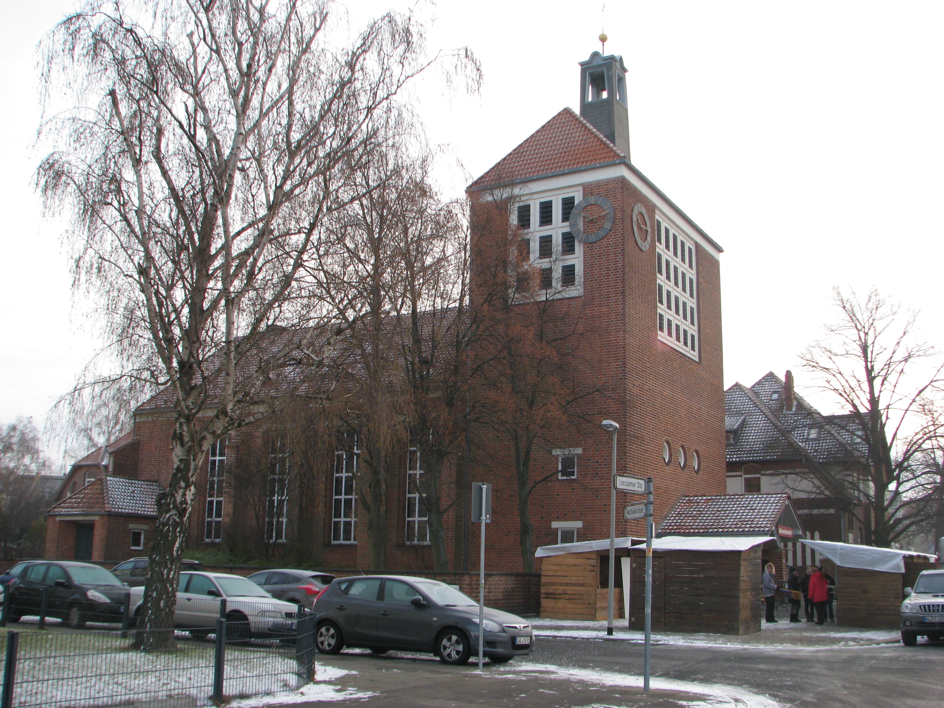 Church Matthaeikirche Hanover Wuelfel, view from Loccumer Strasse